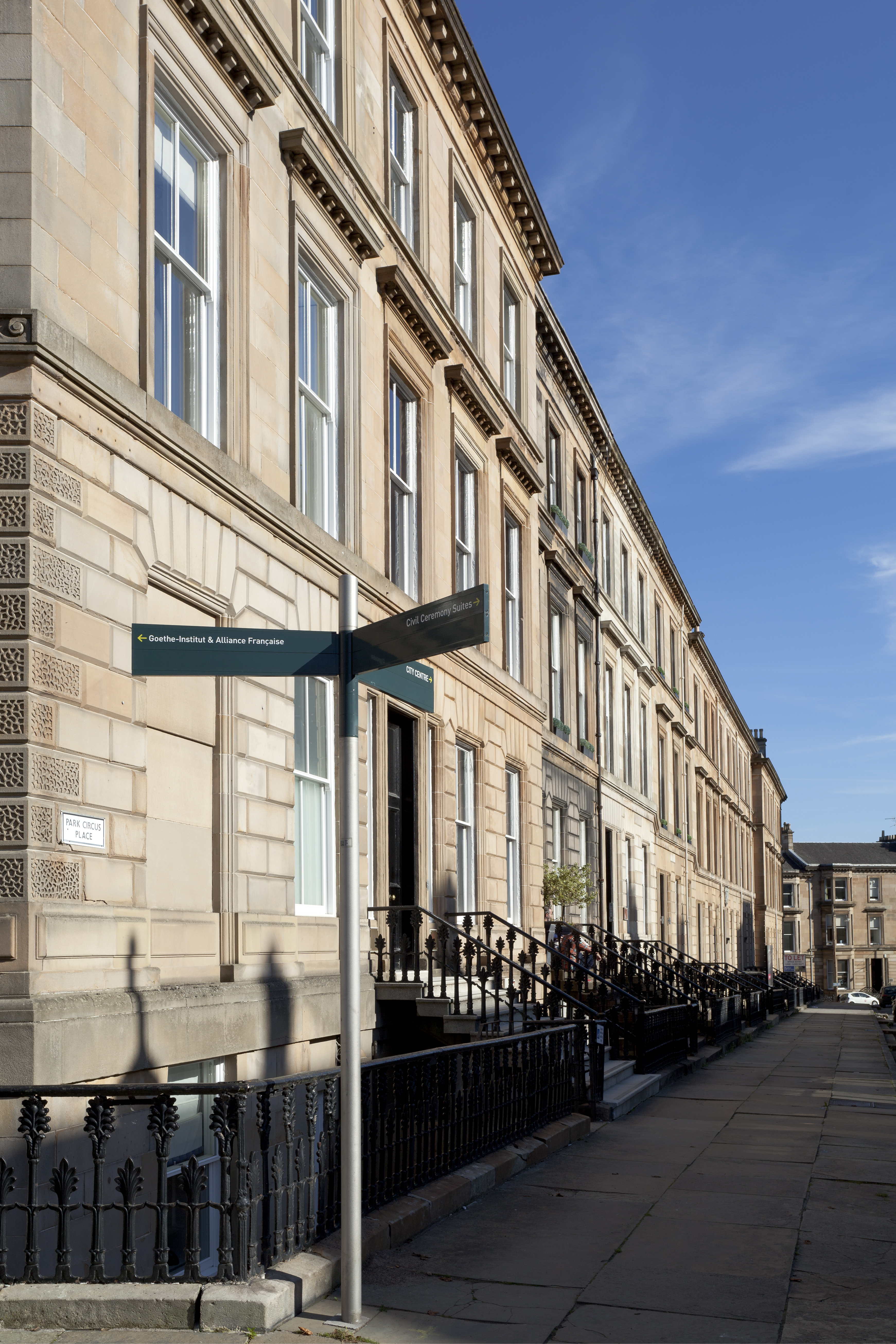 The Park District is located in Glasgow’s west end on the summit of Woodlands Hill. In the second half of the nineteenth century Charles Wilson won the architectural competition to design the district's principal public building.